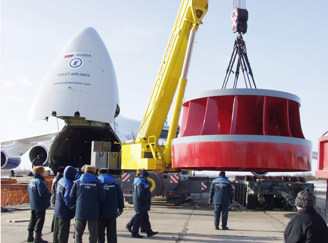 Bureya HPP